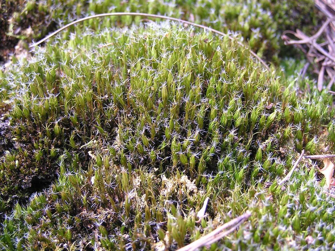 Campylopus introflexus near Bad Dürkheim (Germany)